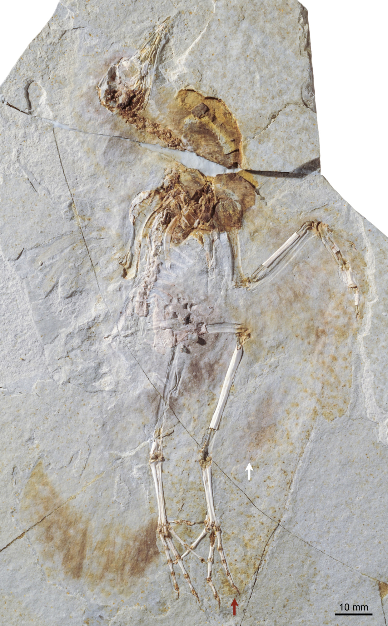 Fossil specimen (DNHM D2945/6) of Hongshanornis longicresta. Chiappe LM, Zhao B, O’Connor JK, Chunling G, Wang X et al. (2014) A new specimen of the Early Cretaceous bird Hongshanornis longicresta: insights into the aerodynamics and diet of a basal ornithuromorph. PeerJ 2:e234